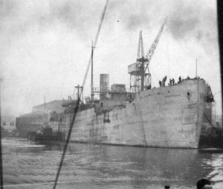 S.S. Fort Wayne (American freighter, 1918) Possibly photographed at her builder's yard at Baltimore, Maryland, around the time of her completion in December 1918. This ship was in commission in the Navy as USS Fort Wayne (ID # 3786) between December 1918 and April 1919.